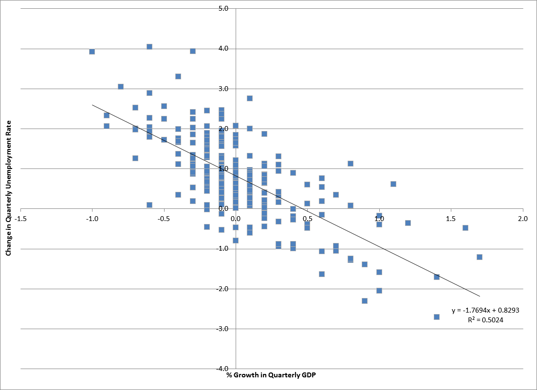 Chart using United States data representing the version of Okun's law using differences in unemployment rate. Data is from St. Louis Fred database Series IDs are UNRATE and GDPC1. Data are quarterly. Differences in UNRATE and percentage change in GDPC1 are charted.